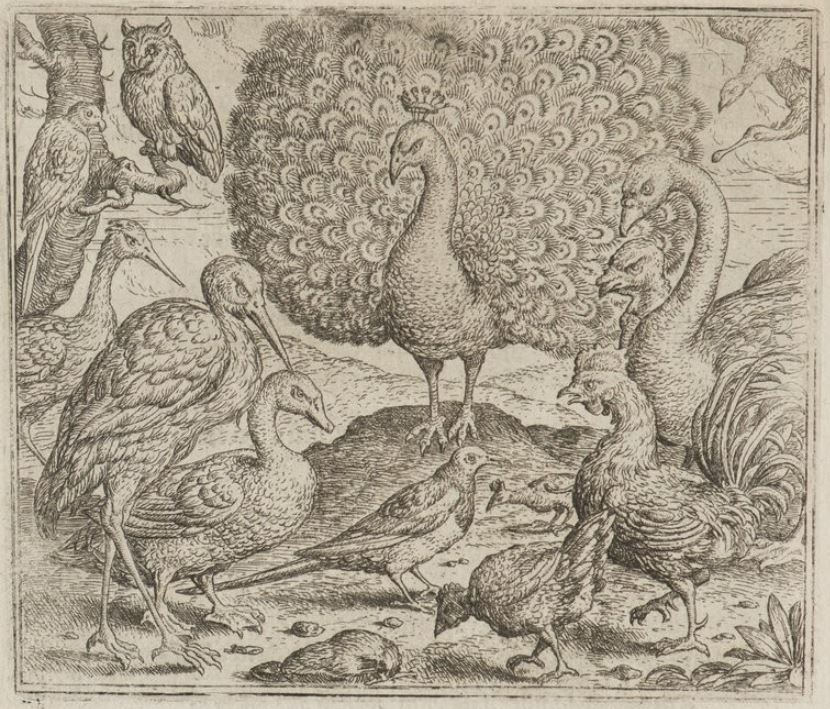 Illustration from the De warachtighe fabulen der dieren by Edewaerd de Dene, published by Pieter de Clerck in Bruges, 1567.